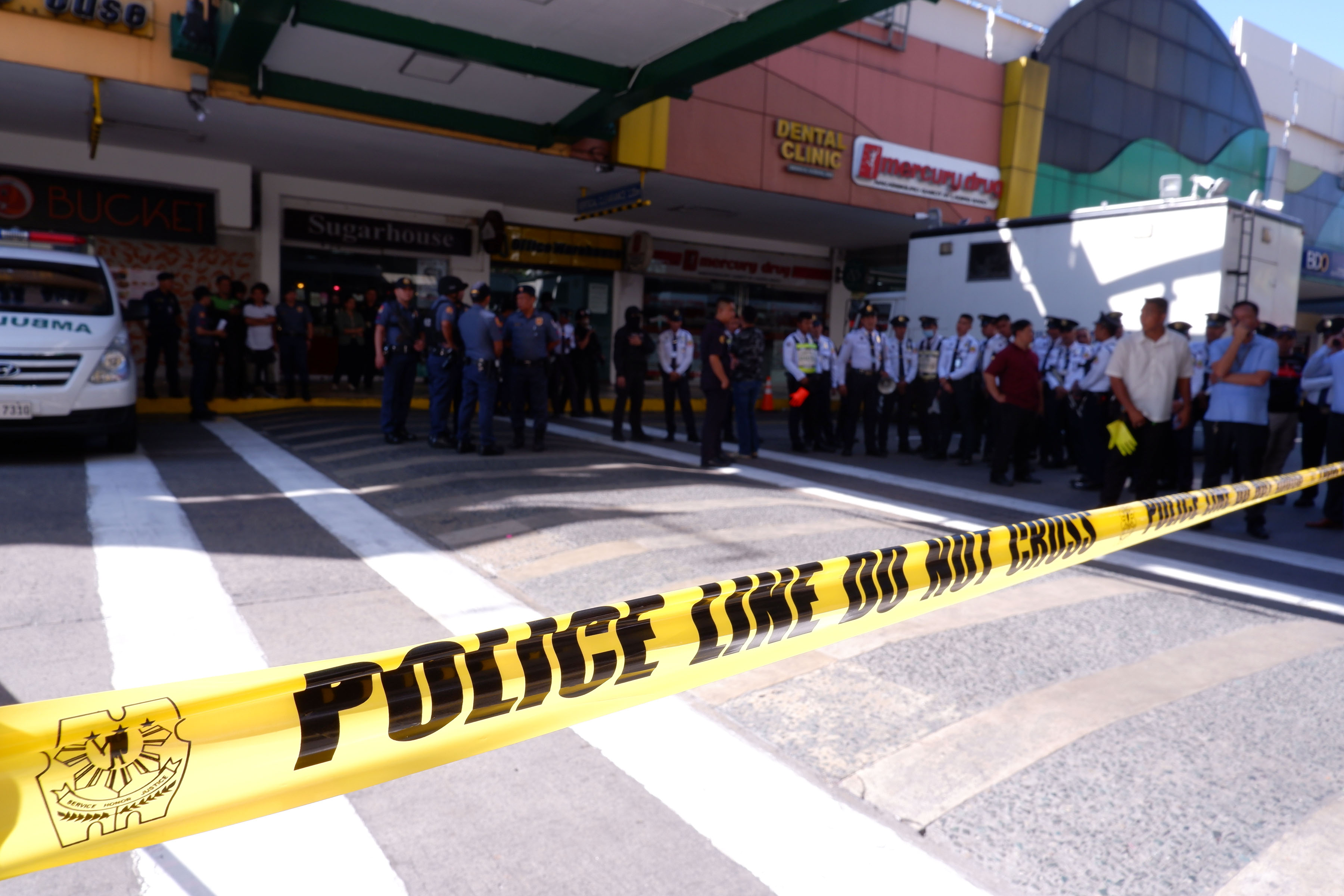 Authorities ordered a lockdown at the Virra Mall, Greenhills area due to the hostage-taking which started at around 11:22 a.m. Monday (March 2, 2020). Negotiation for the release of around 30 hostages is ongoing. (PNA photo by Robert Oswald P. Alfiler)